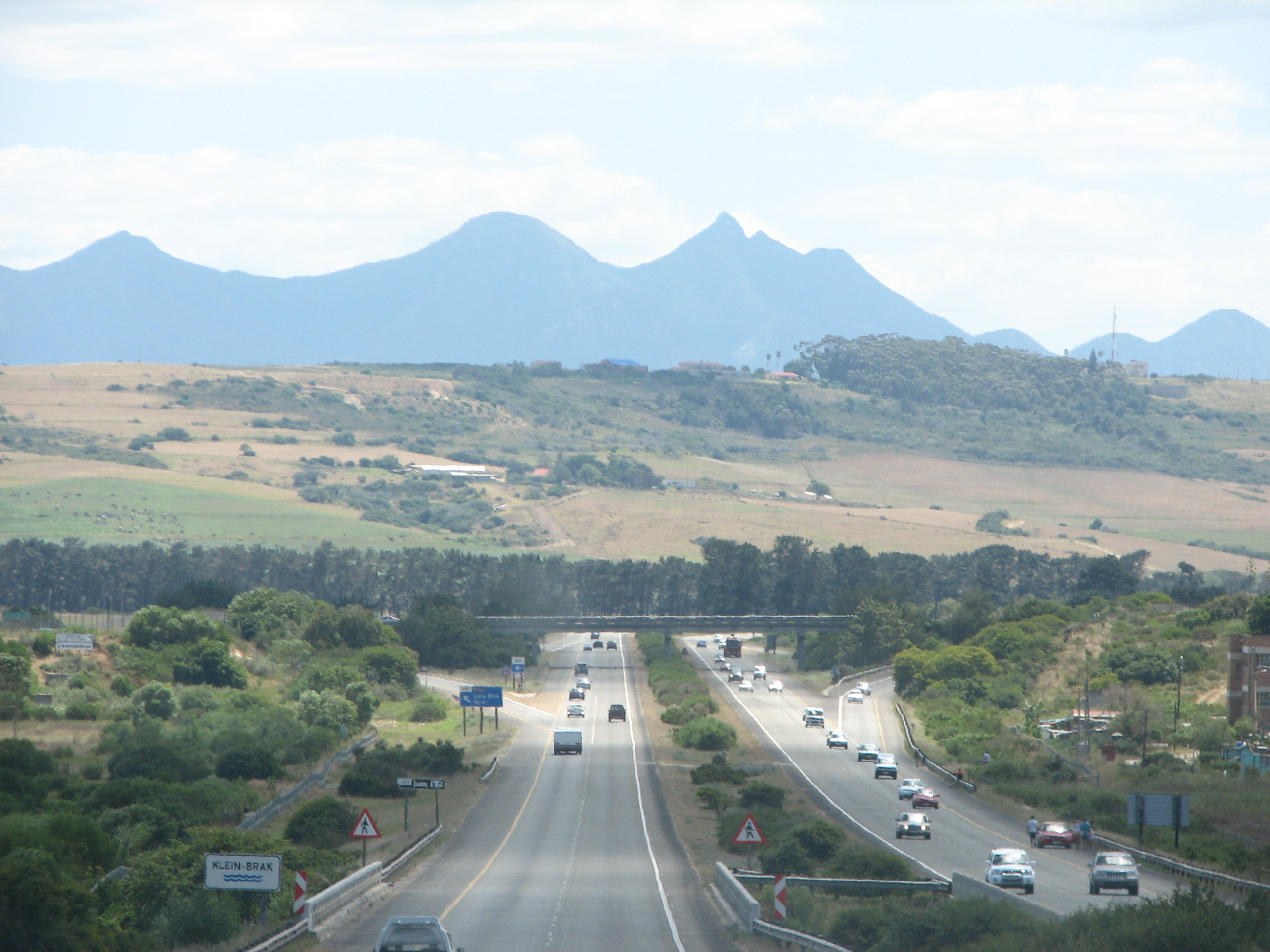 Taken by myself, Andres de Wet, 30 December 2006 The N2 national road crossing the Klein Brak river